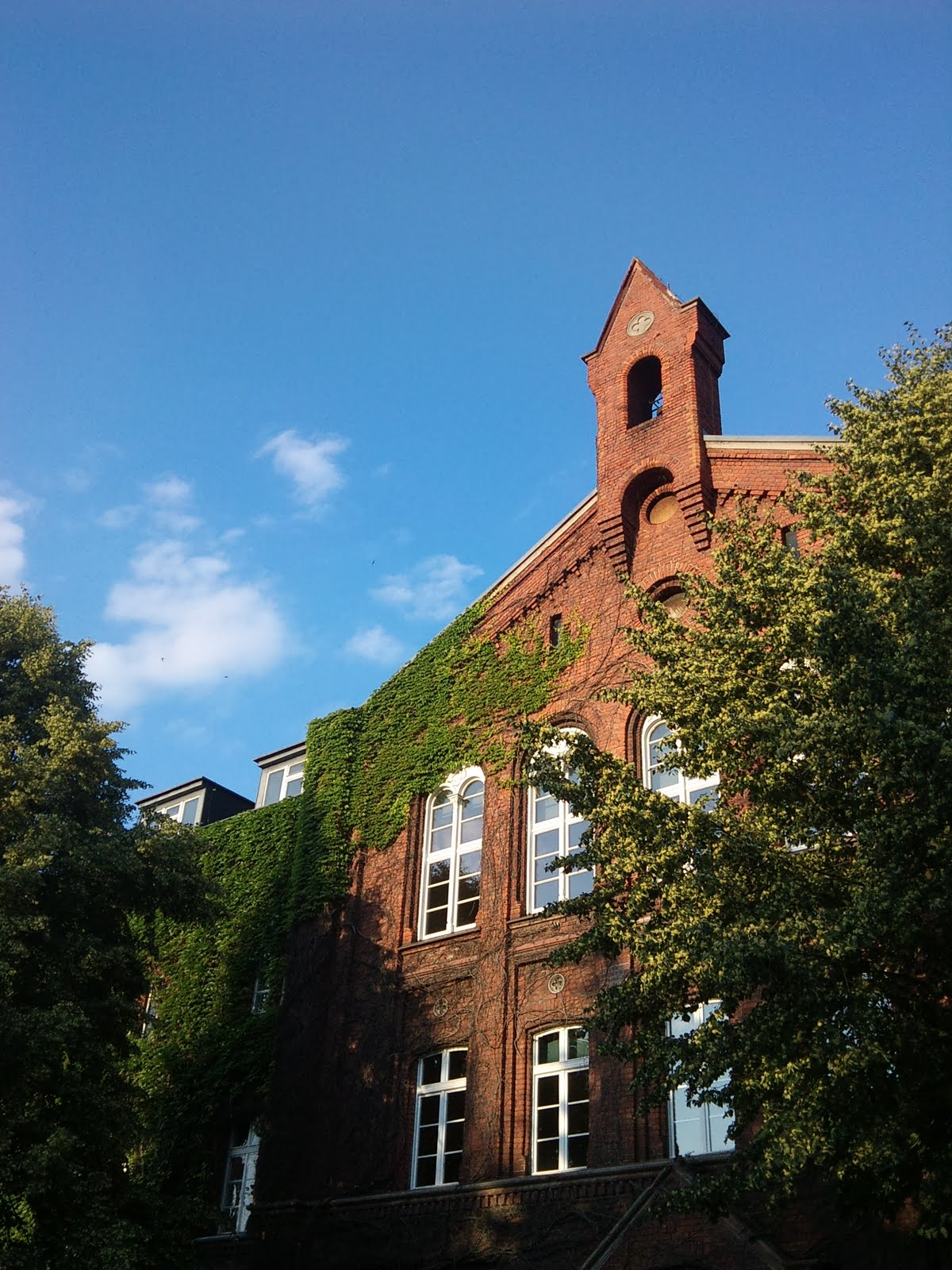 Budynek UTP w Bydgoszczy przy ulicy Bernardyńskiej, w którym chór spotyka się podczas prób